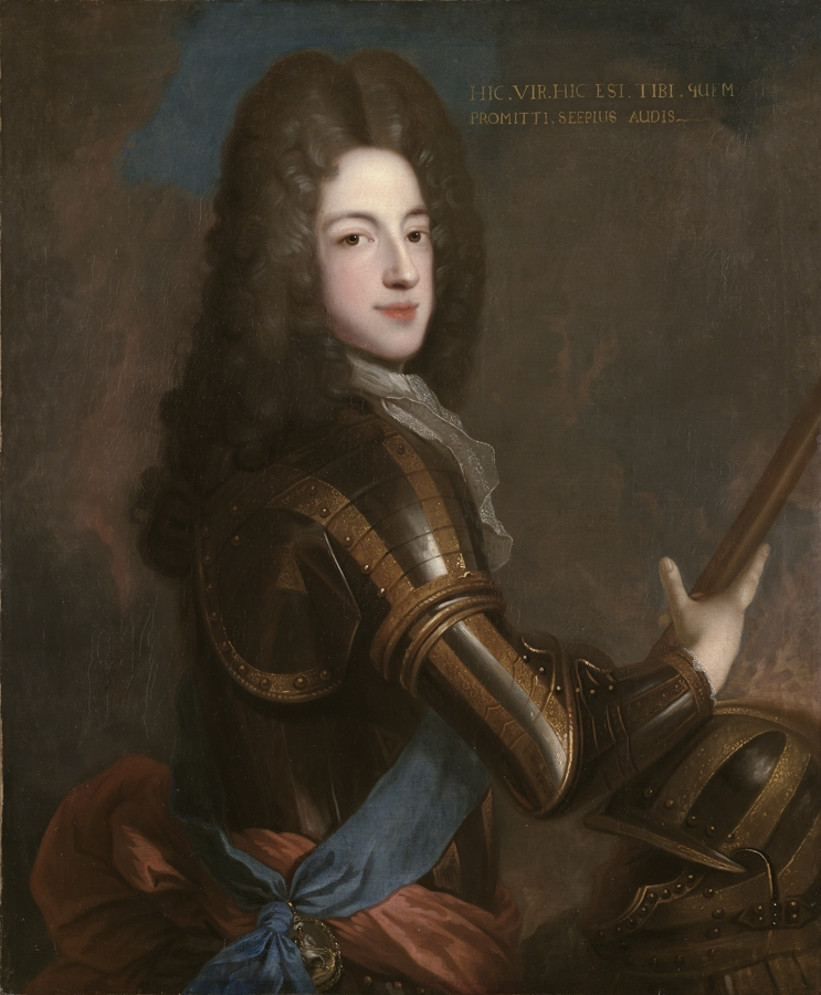 Portrait of James Francis Edward Stuart (1688-1766)